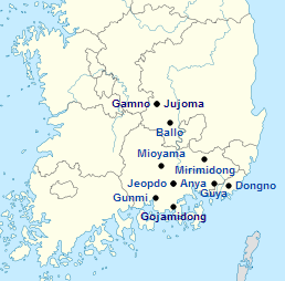 Map of the states of the Byeonhan confederacy